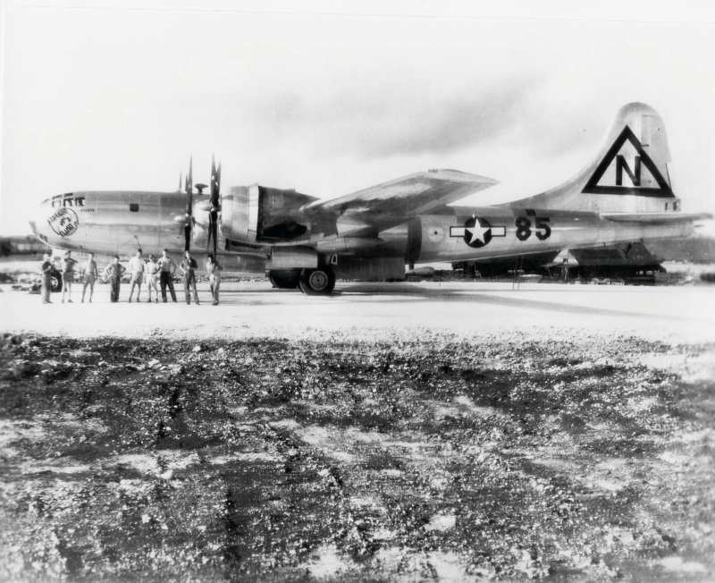 Silverplate B-29 Straight Flush shown with its false tail identification used on the atomic missions.